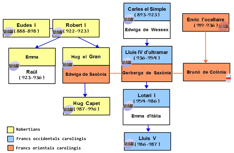 This image shows how Robertians came to the throne of West France and its relatives of the East Francia